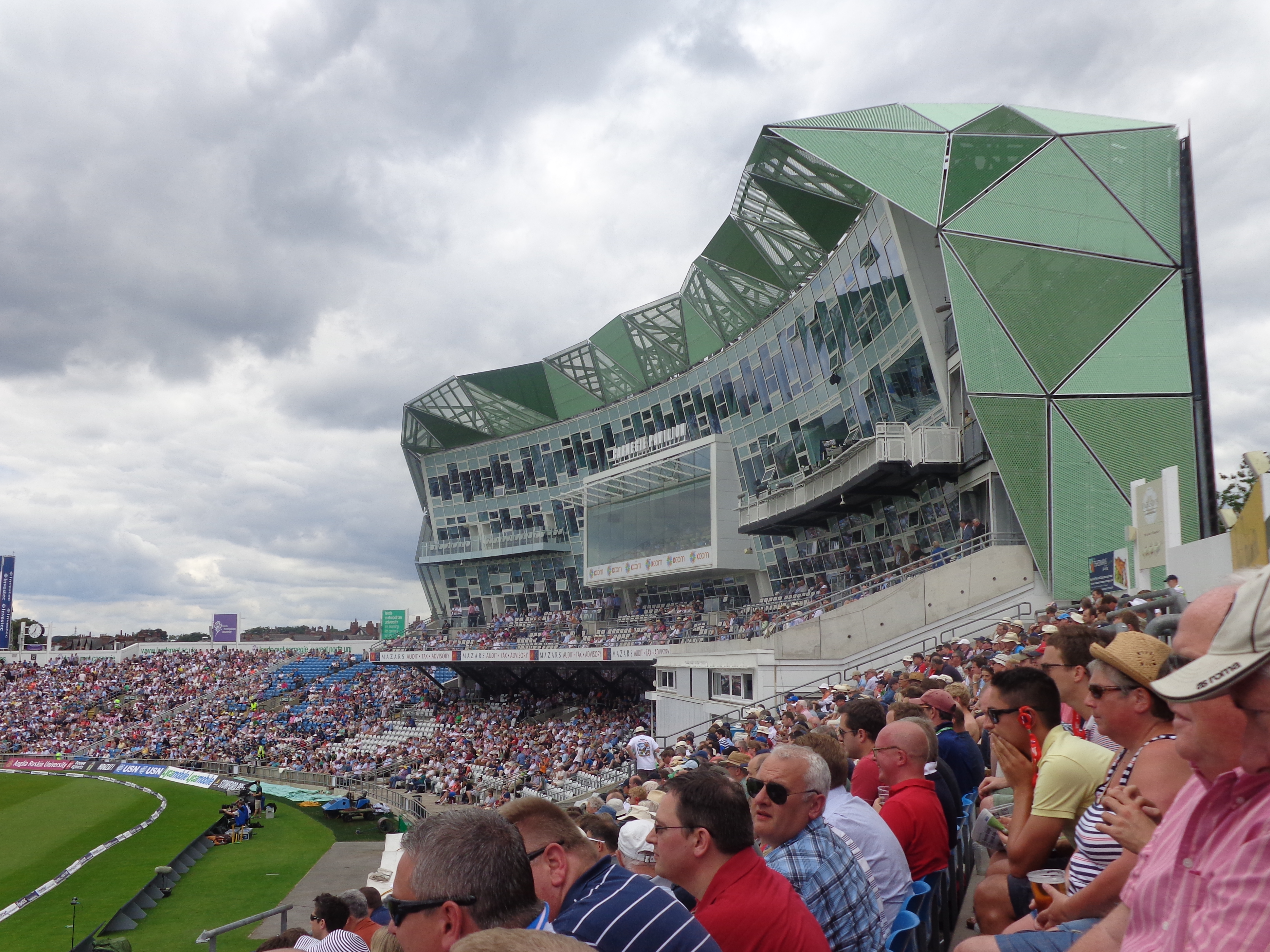 Carnegie Pavilion, Headingley Stadium, Leeds during the second day of the England- Sri Lanka test. Taken on the afternoon of Saturday the 21st of June 2014.